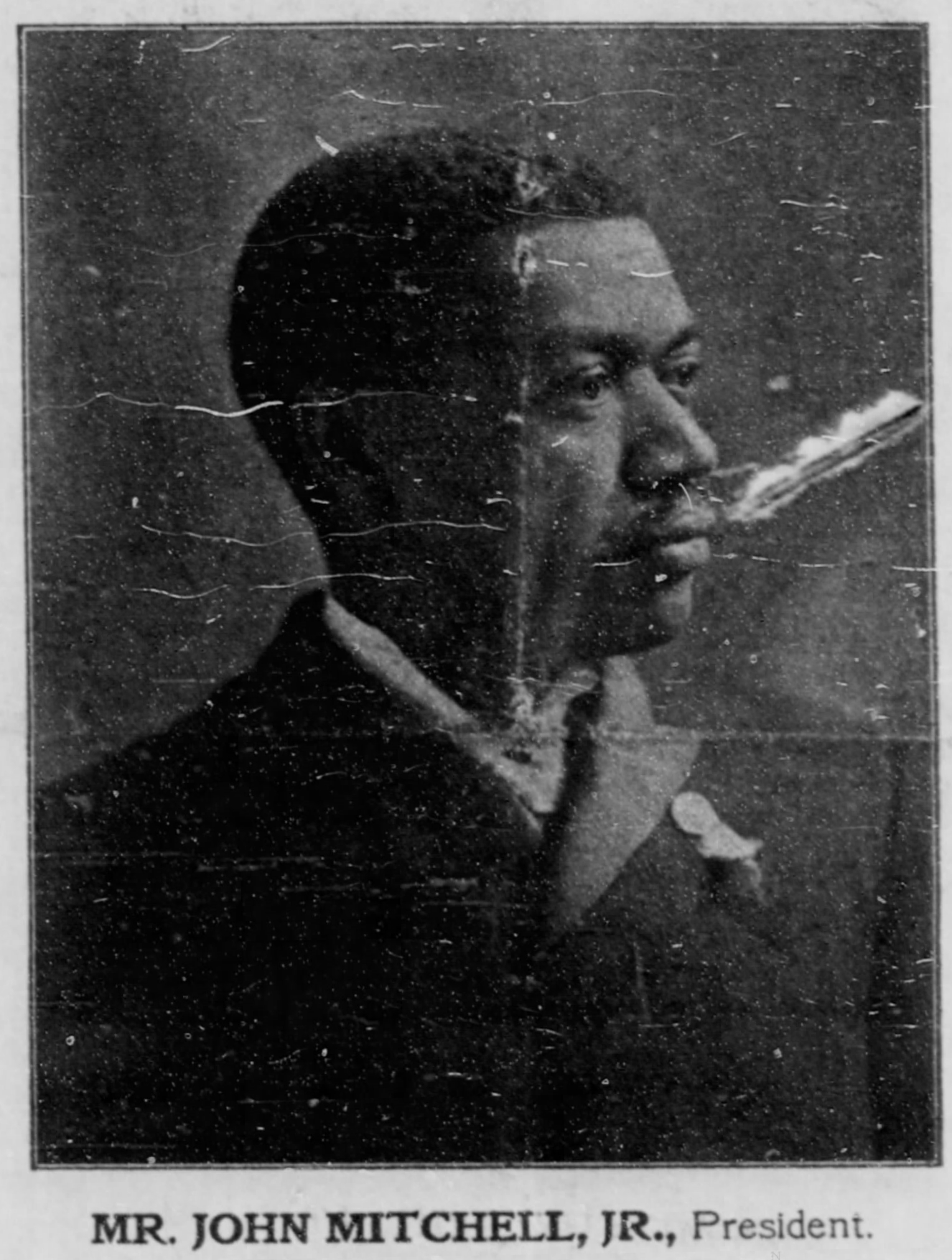 John Mitchell Jr, president of the Mechanics Savings Bank